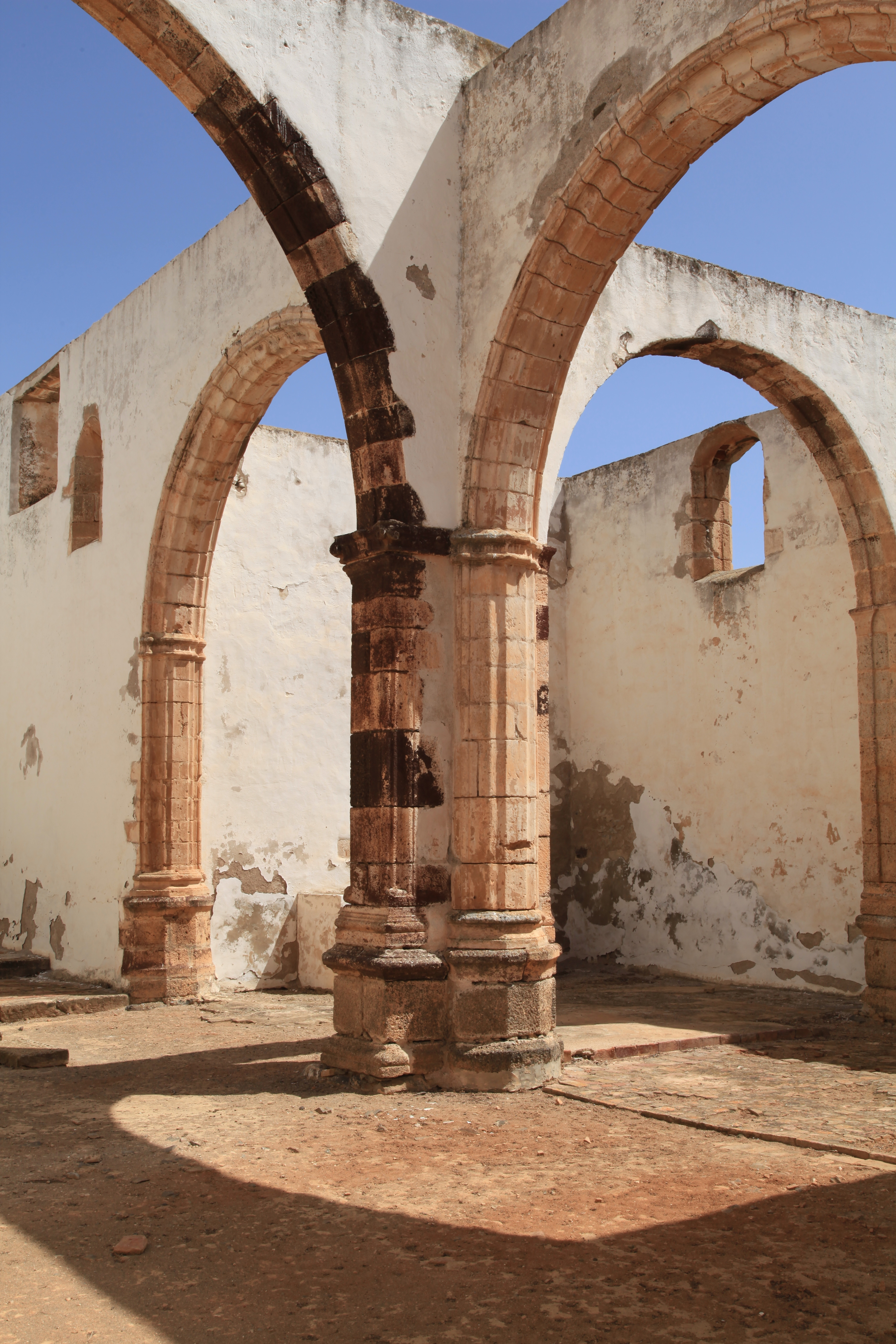 Convento de San Buenaventura, Calle General Linares in Betancuria, Fuerteventura, Canary Islands